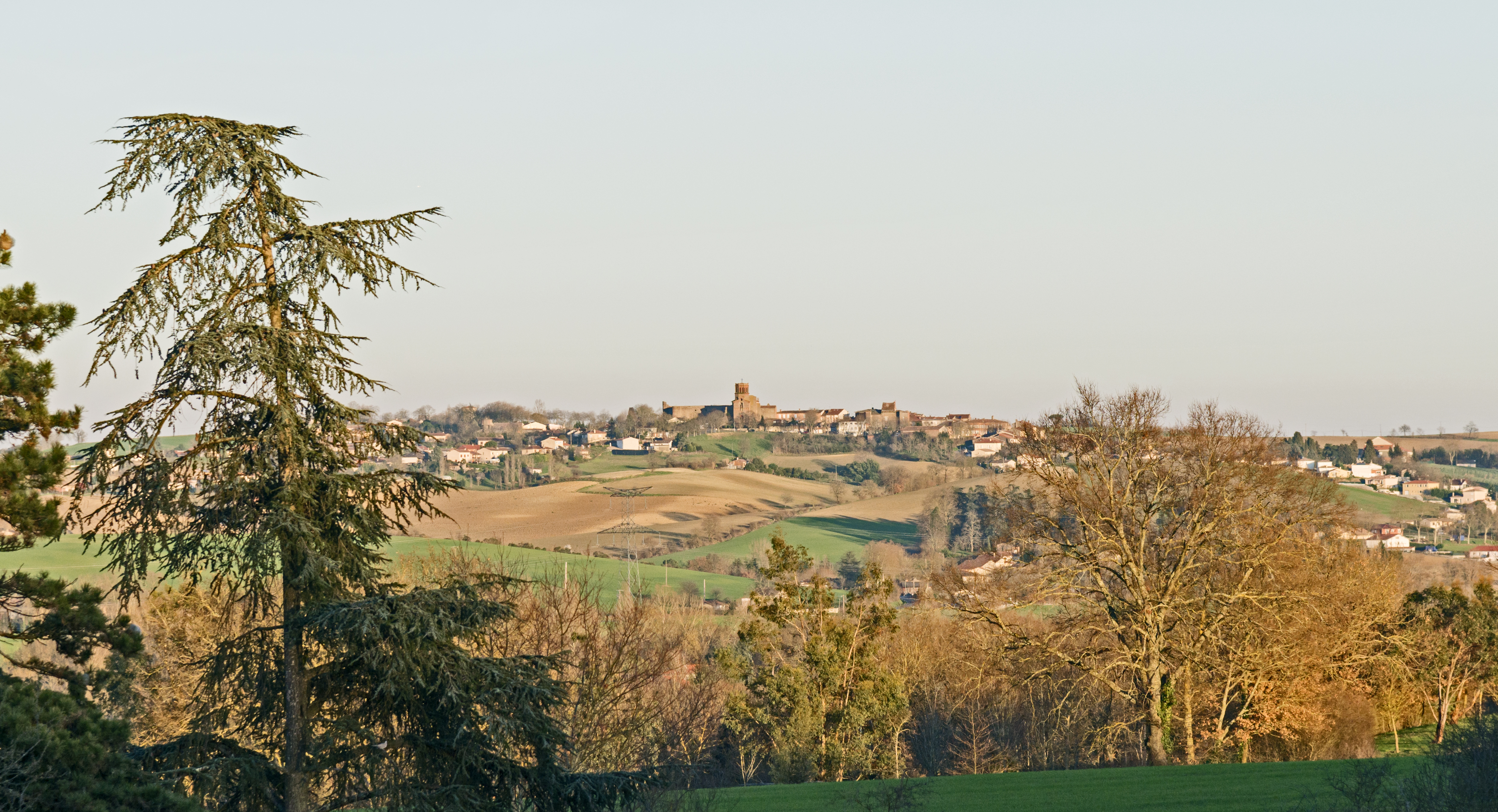 Verfeil, Haute-Garonne, France.